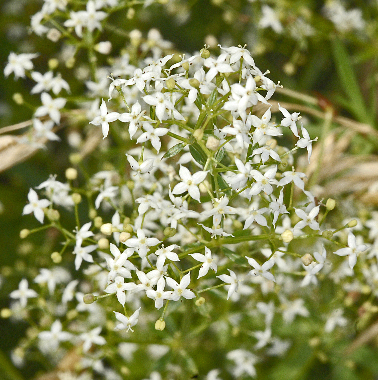 Galium mollugo. Vi Superiore, Genova, Italy